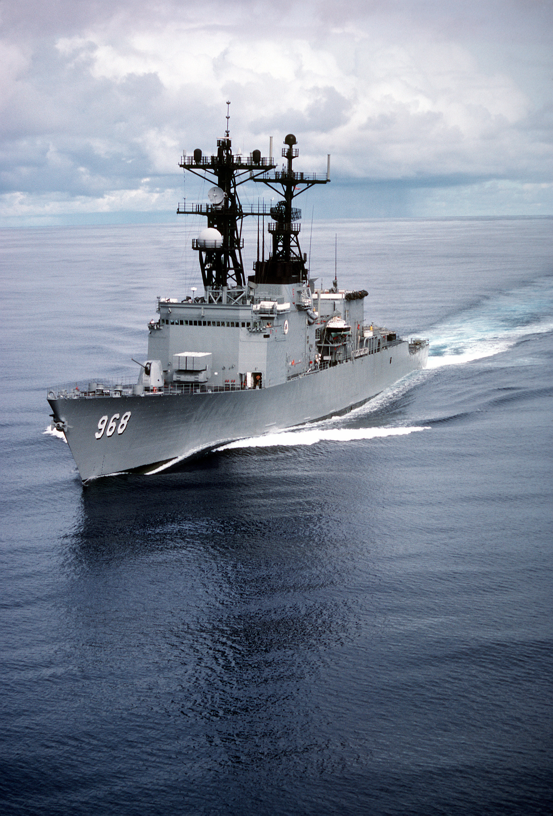 A port bow view of the destroyer USS ARTHUR W. RADFORD (DD-968) underway.